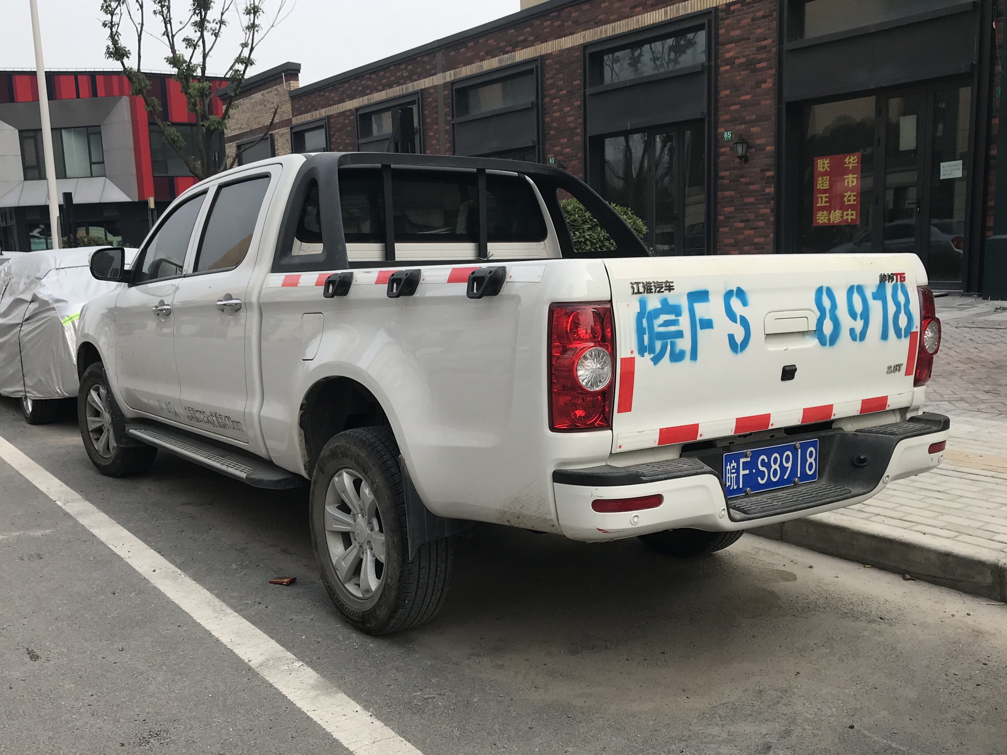 JAC Shuailing T6